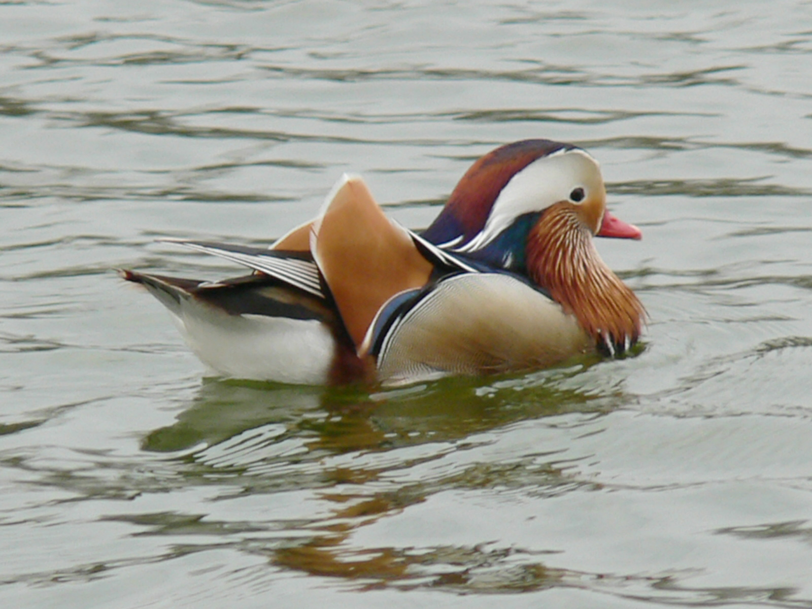 Mandarinréce a pilisvörösvári Nagy-tavon